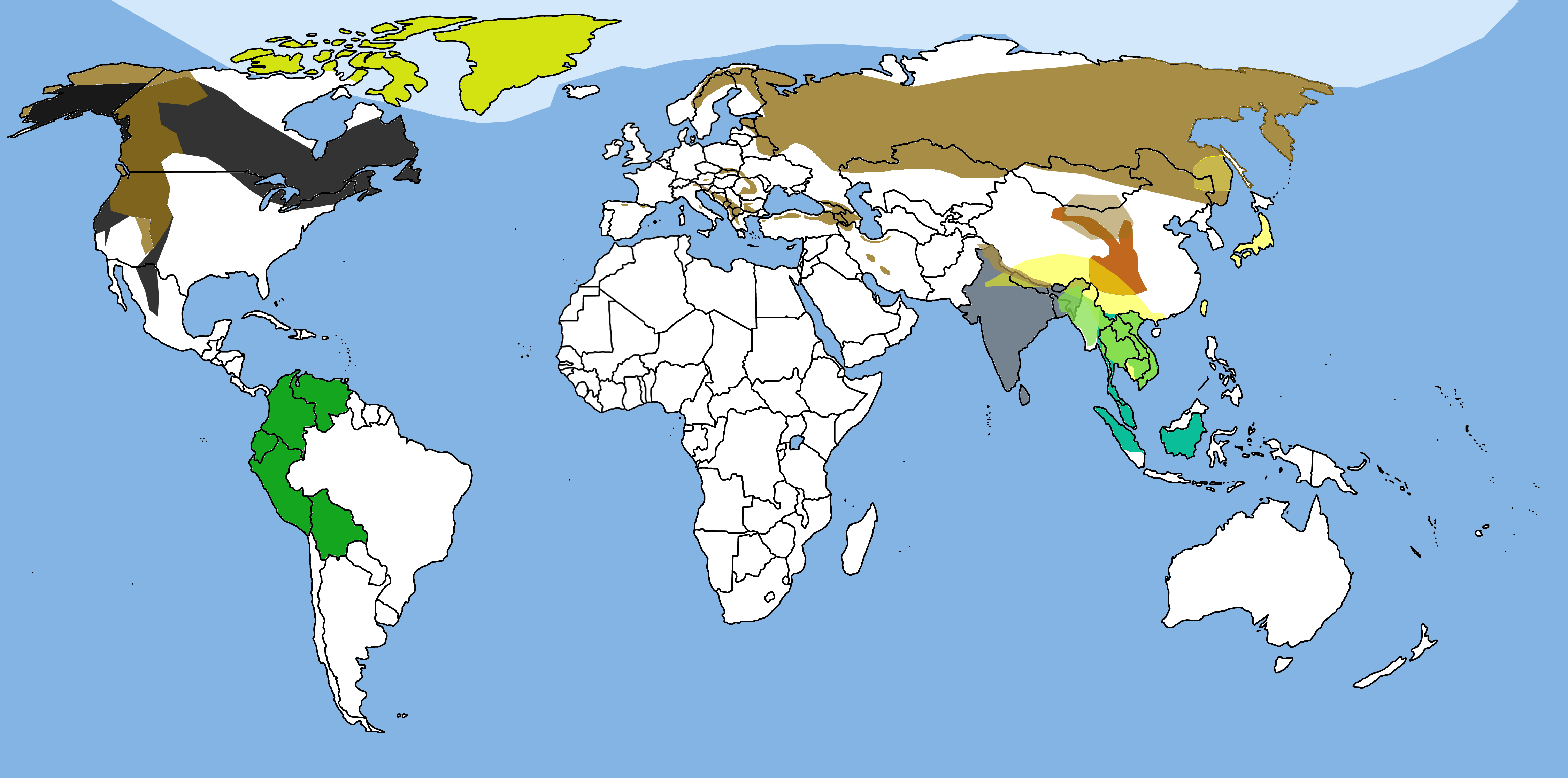 Map of Bear species (Ursidae) distribution.png: 00 00 00 00 00 Ailuropoda melanoleuca 00 00 00 00 00 Helarctos malayanus 00 00 00 00 00 Melursus ursinus 00 00 00 00 00 Tremarctos ornatus 00 00 00 00 00 Ursus americanus 00 00 00 00 00 Ursus thibetanus 00 00 00 00 00 Ursus arctos 00 00 00 00 00 Ursus maritimus